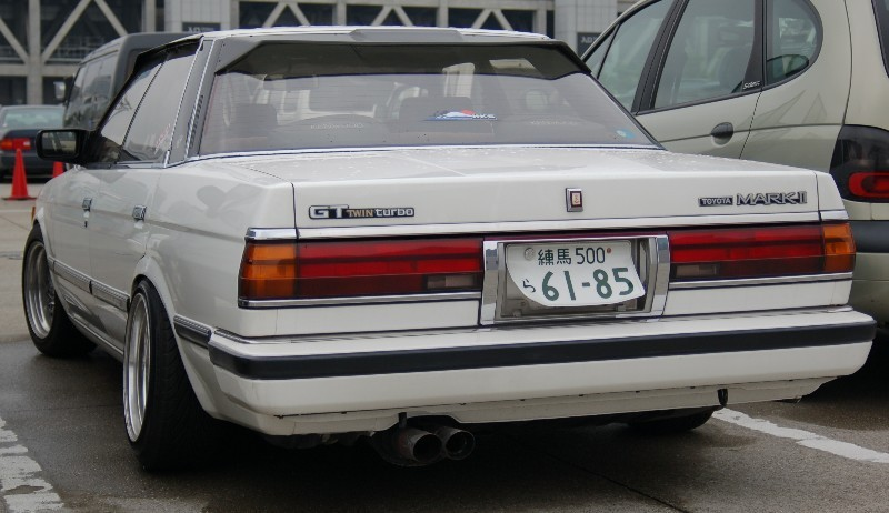 A Toyota Mark II taken at a Tokyo Auto Show. When I spoke to the owner, he claims it's an original Bosozoku modified car, or a "Bos Bippus" according to the article on VIP Style.